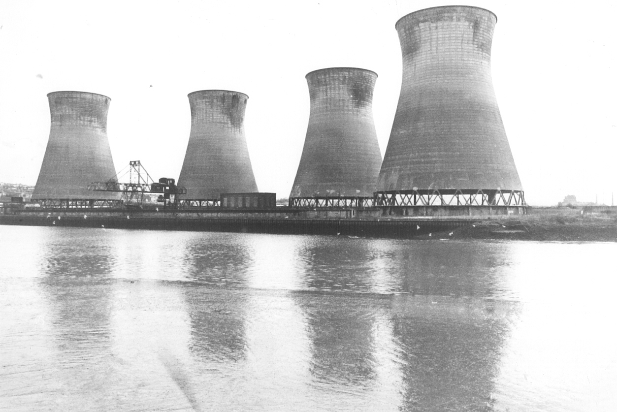 The cooling towers of Stella power station.